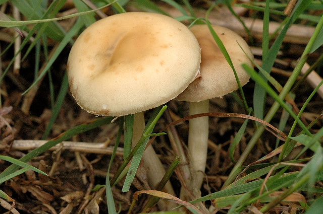 Agrocybe praecox from Commanster, Belgium. If you think this is a different taxon, please contact James Lindsey.